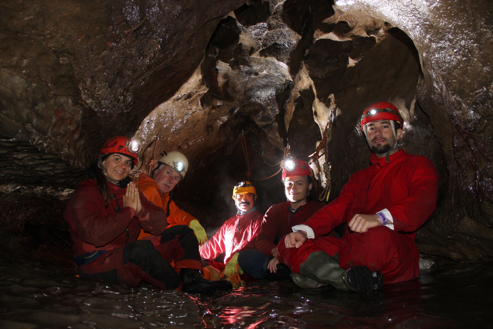 Hayatullah Khan Durrani and members Pakistan caving team with Simon James Brooks (Secretary BCA) in Great Britain after Cave mapping/ cave photography session 2016.